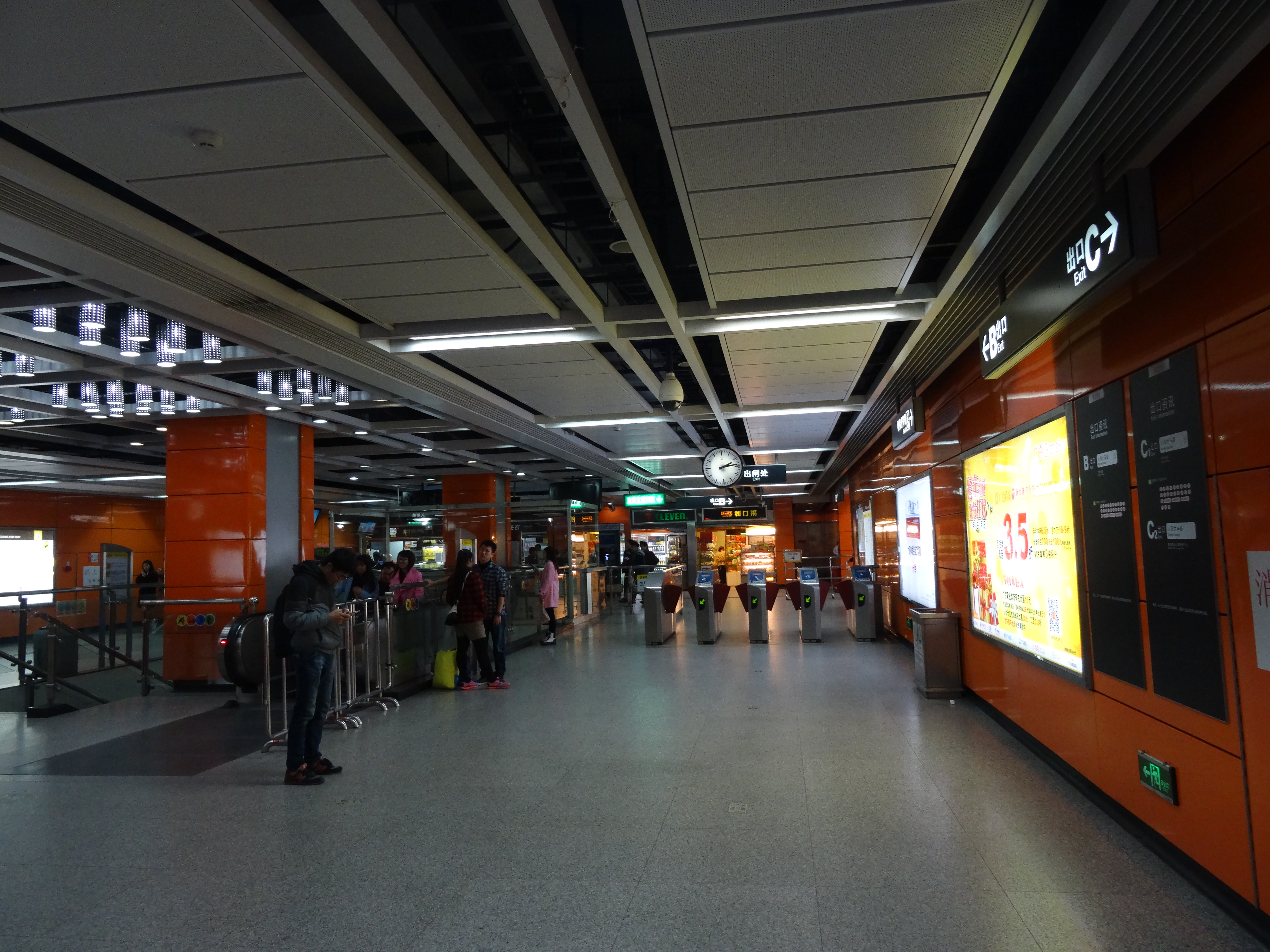 人和站嘅站厅